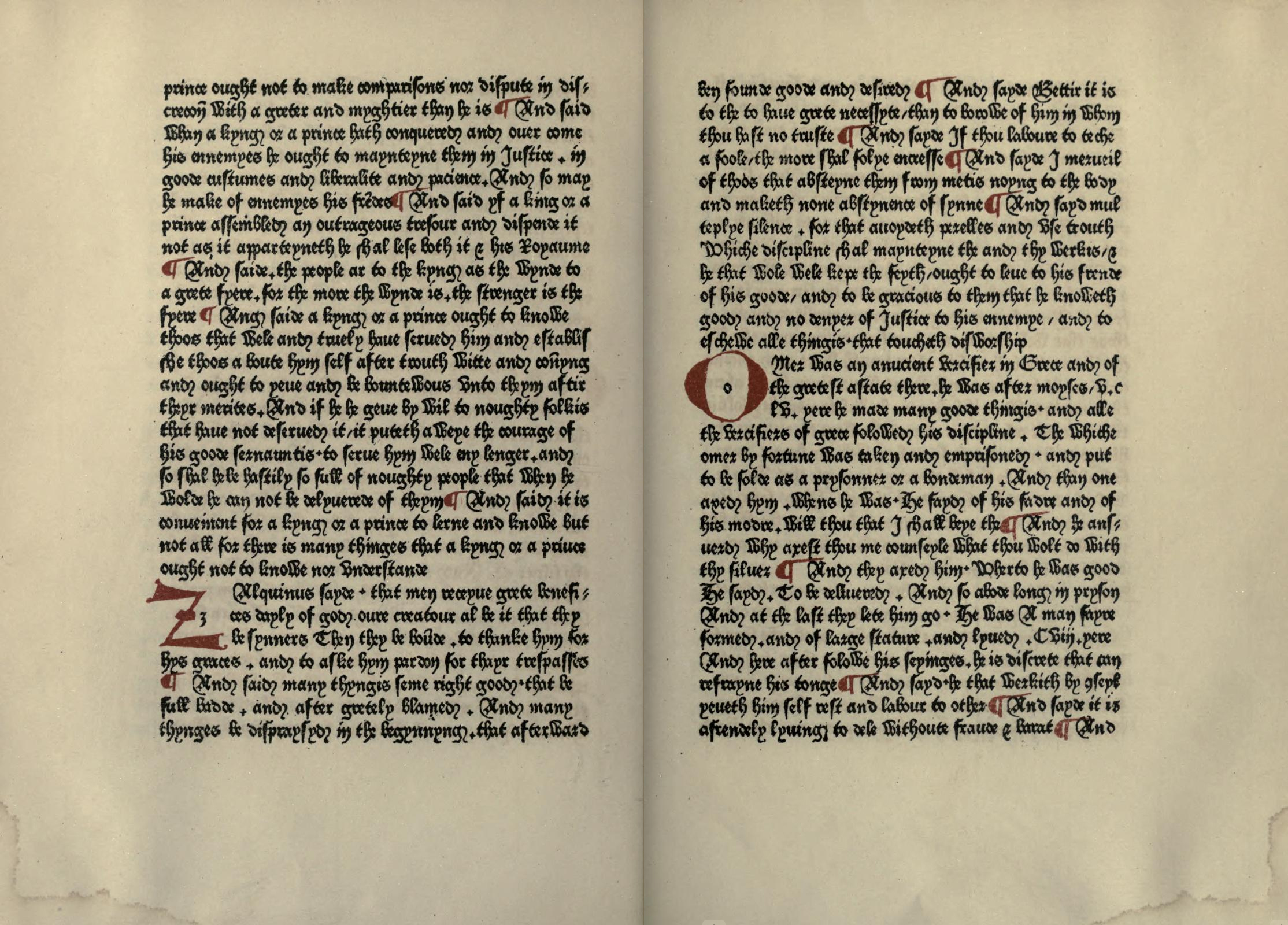 Spread from the facsimile of the "Dictes and Sayings of the Philosophers" printed by William Caxton in 1477. Facsimile printed in 1877.